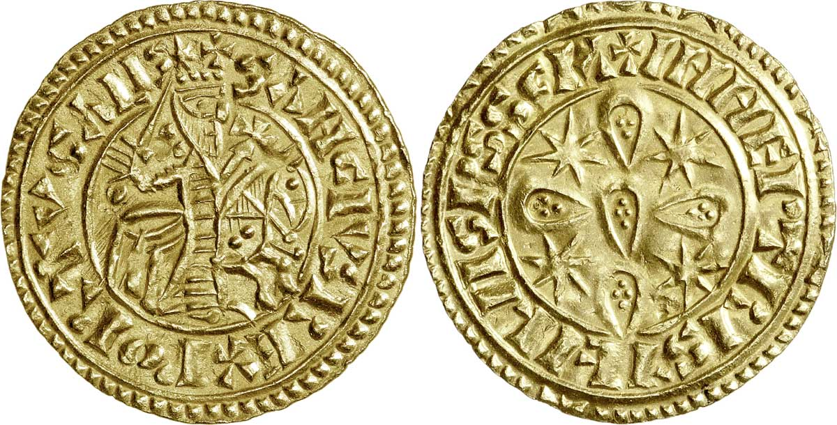 Marabotin en or à l'effigie de Sanche I. Description avers : Le roi à droite sur un cheval, couronné, tenant une épée de la main droite et une croix de la main gauche .